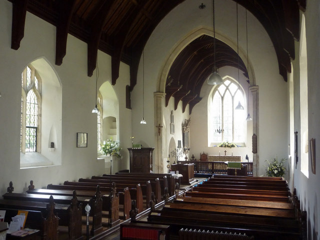 Inside Brandeston church The interior of All Saints Church.